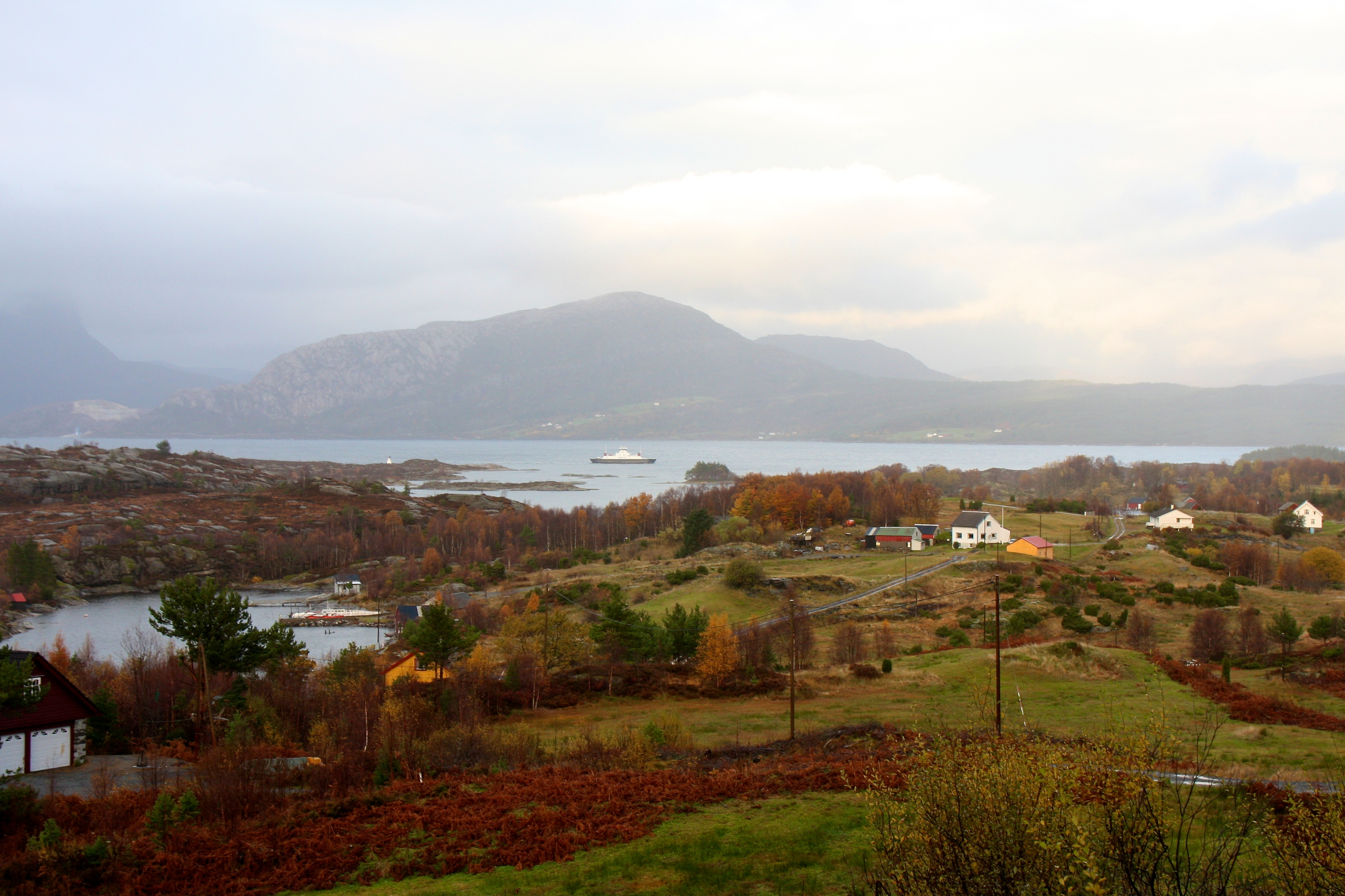 Rutle in Gulen municipality, Norway.